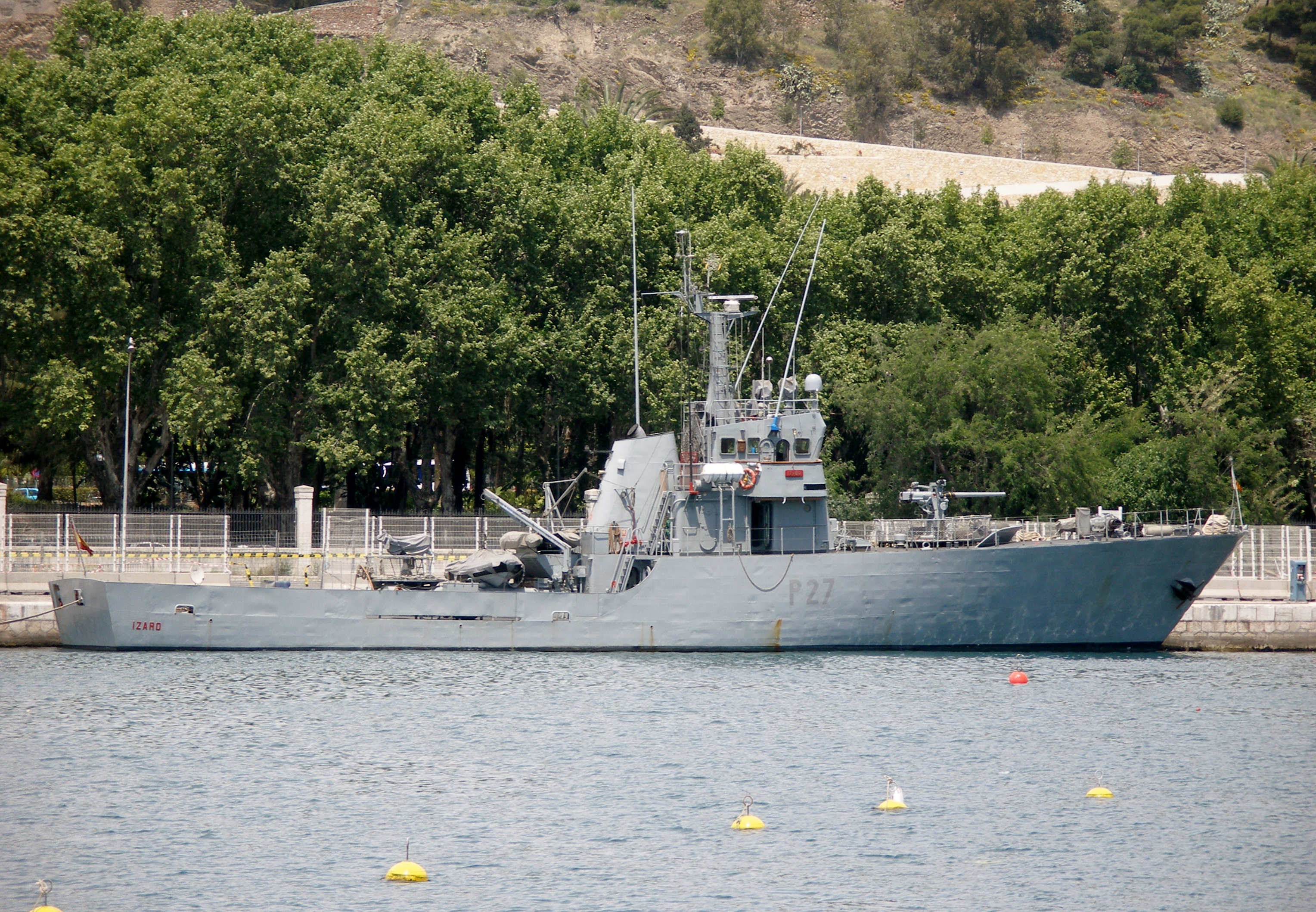 Model: P-27 Izaro Register Number: P-27 Place: Malaga Comments: Anaga Class Spanish patrol ship. Date: Apr 22, 2006 Photographer: Sergio Echeverria Garcia